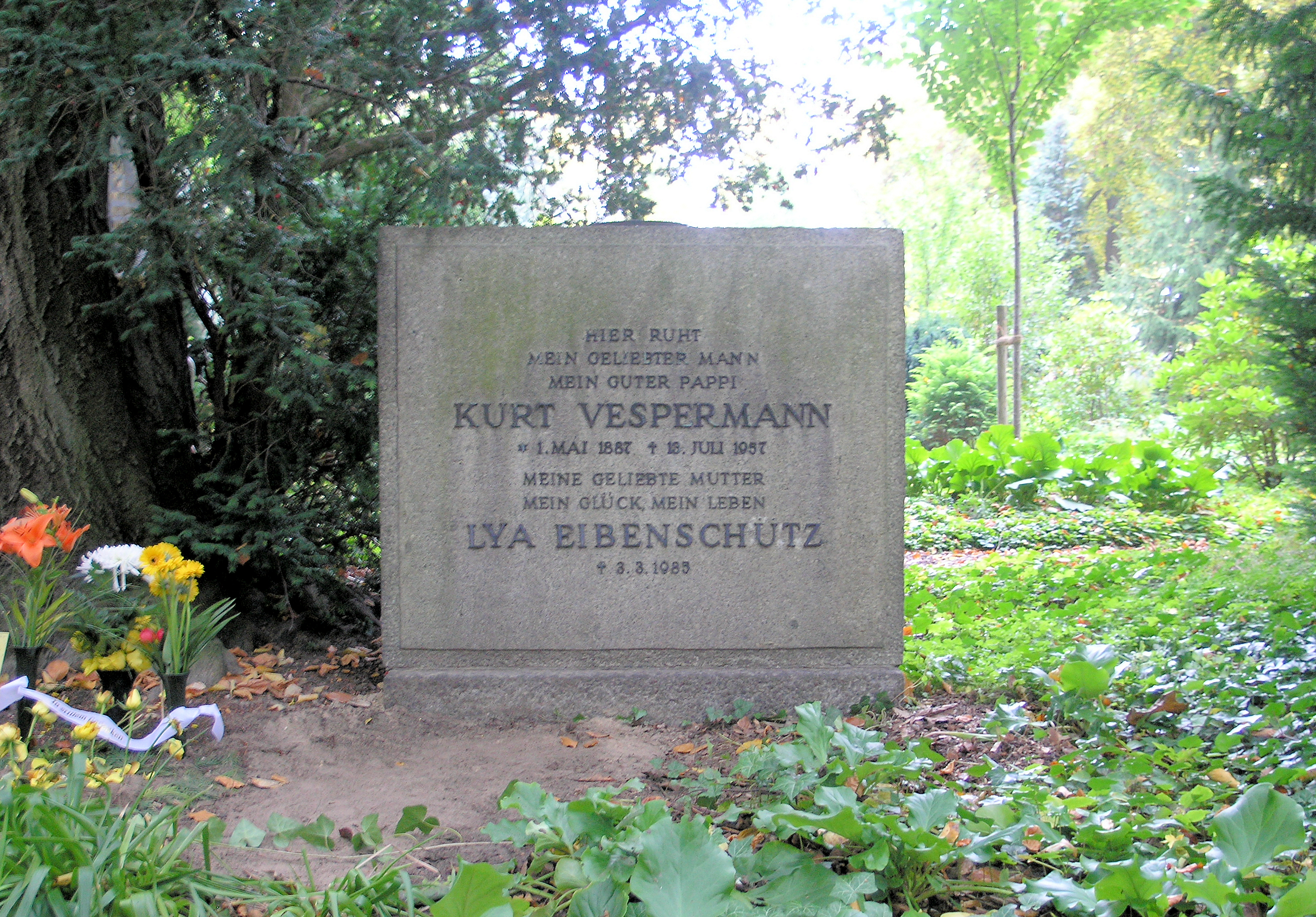 Graves, Kurt Vespermann and Lia Eibenschütz, Fürstenbrunner Weg 65-67, Berlin-Westend, Germany Koordinate:52°31′29″N 13°16′44″E / 52.52472°N 13.27889°E